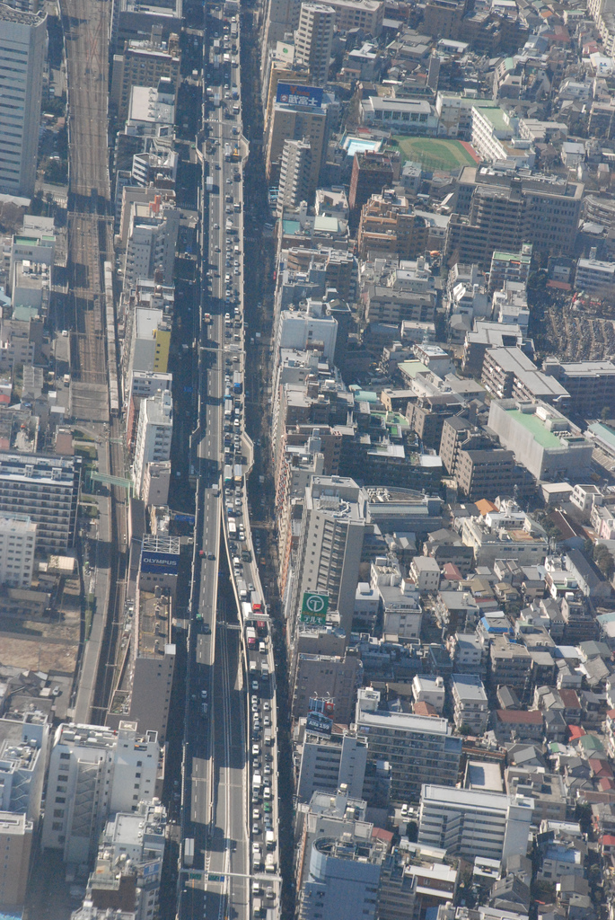 Route 4 (Shinjuku Line) and National Route 20 at Shibuya Ward